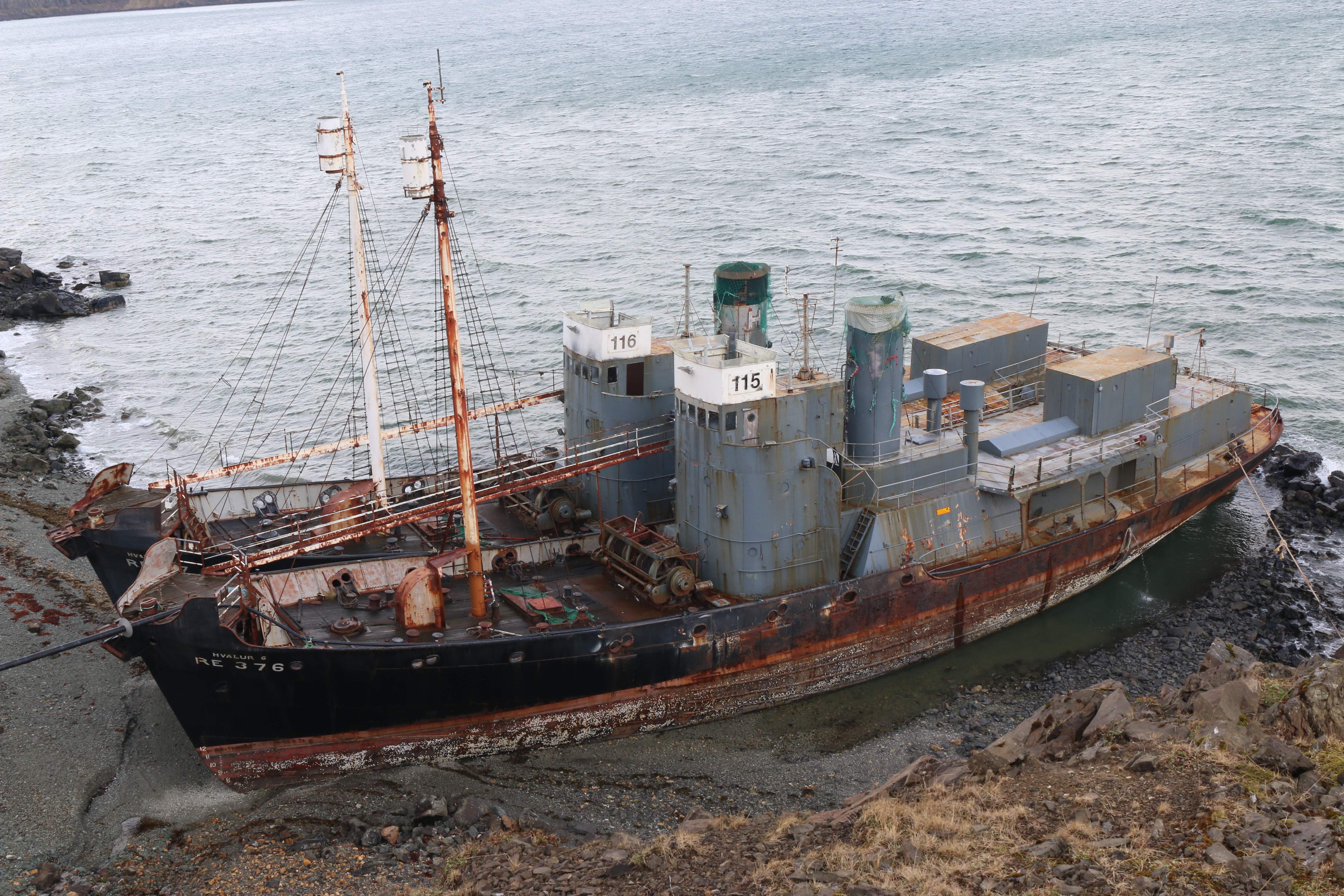 RE 376 Hvalur 6 and RE 377 Hvalur 7 at Hvalfjörður in may 2018.